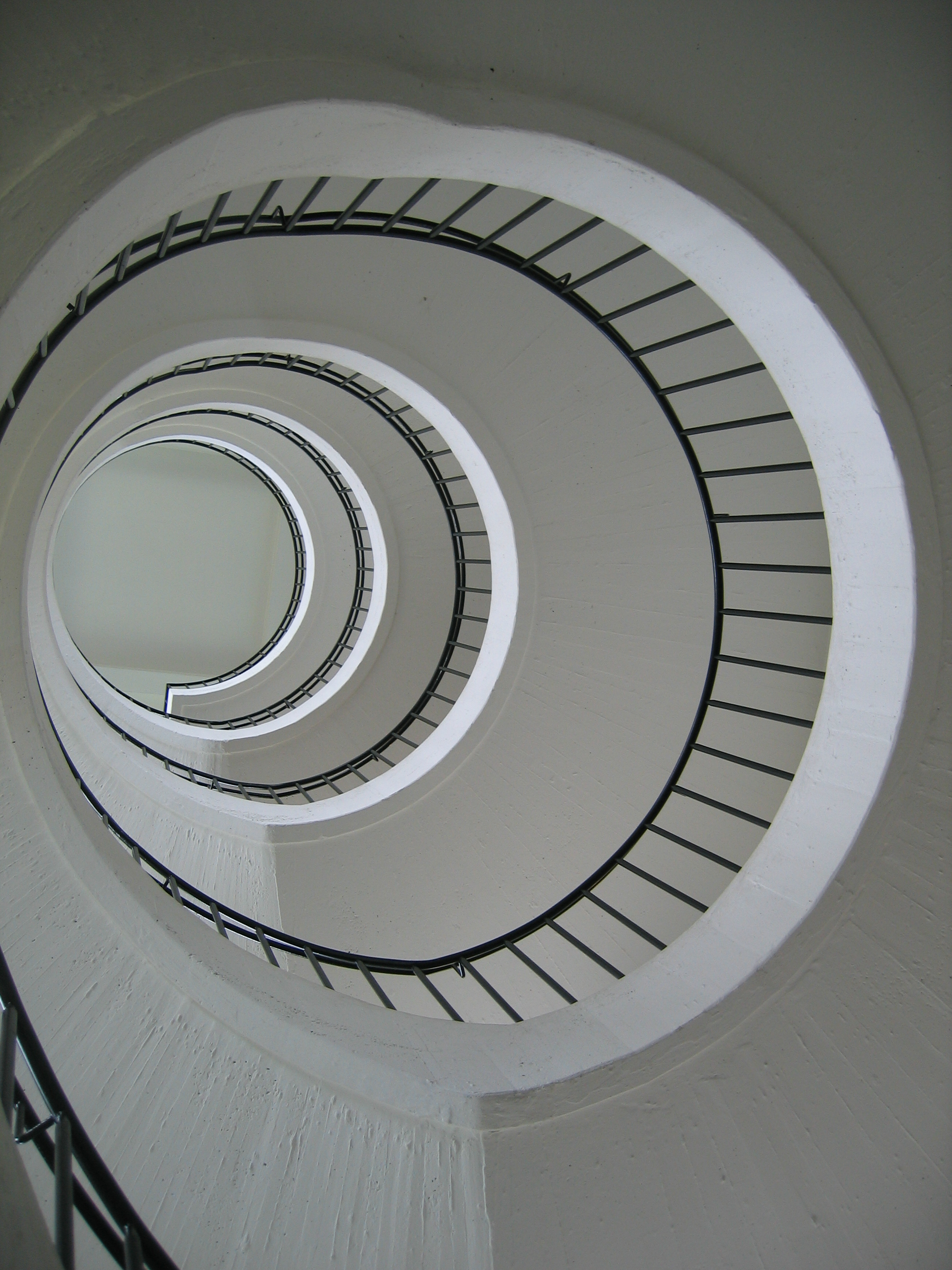 The staircase of the Deutsches Museum in Munich, Germany. I took this photo myself on April 29, 2005.